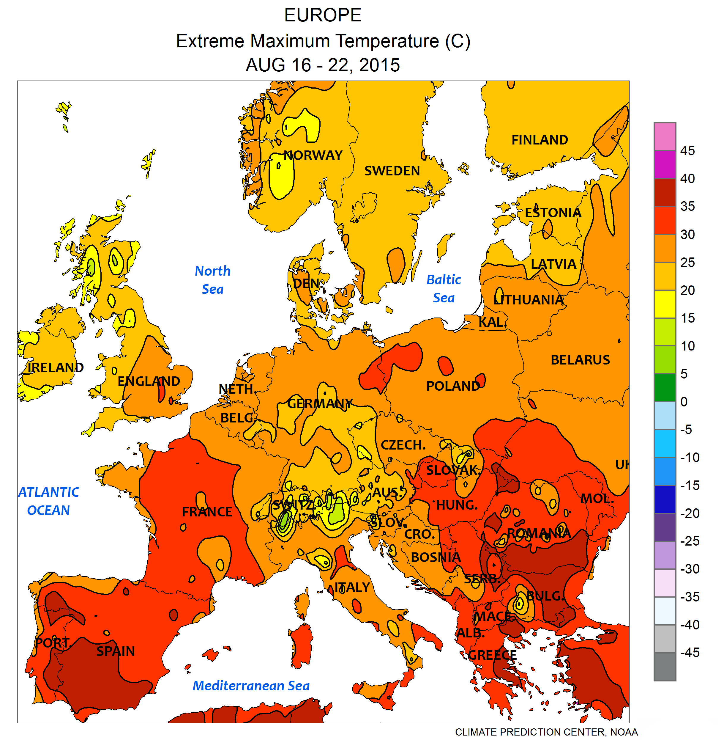 Europe: Extreme maximum temperature August 16 - 22, 2015, computer generated contours, based on preliminary data